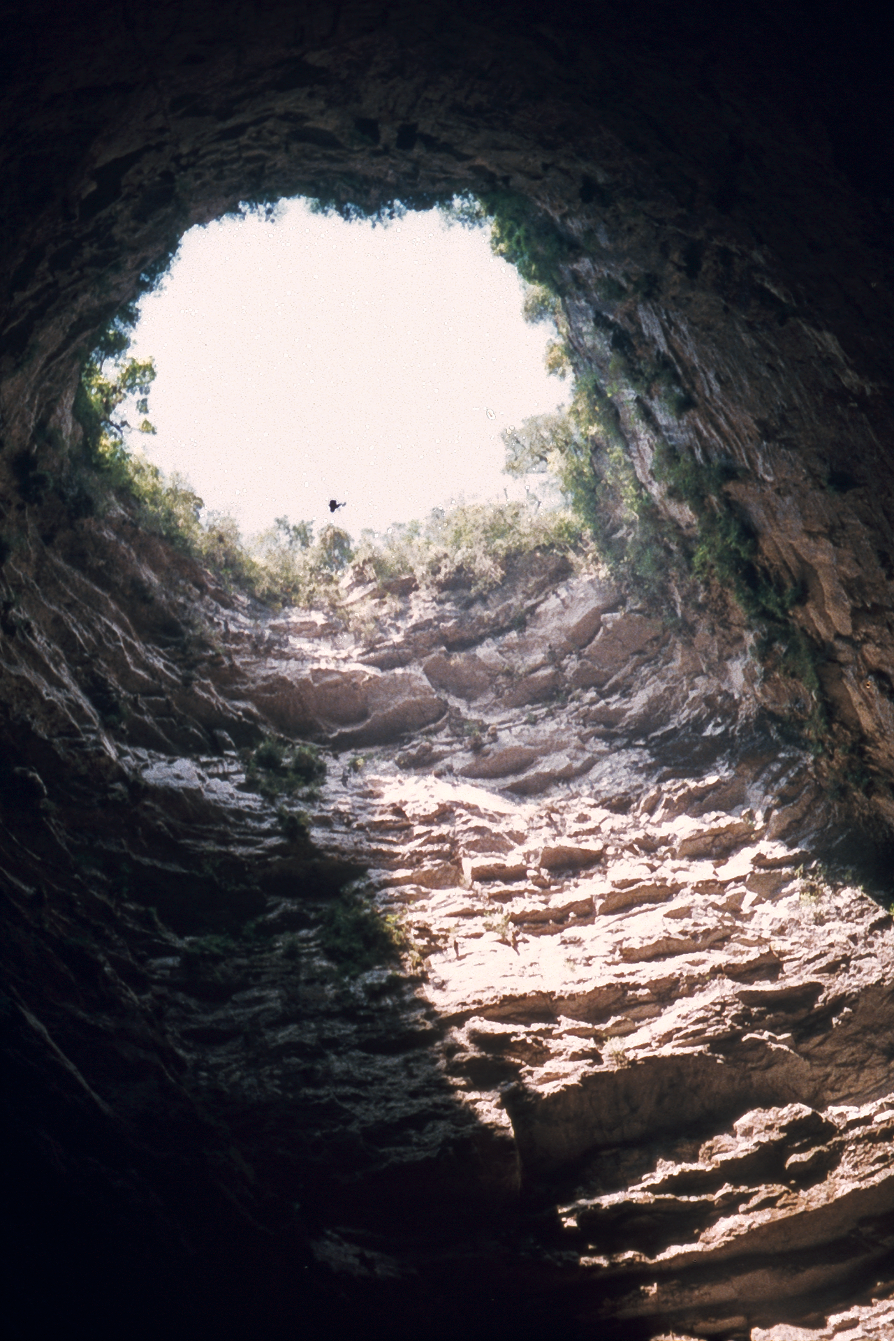 A caver rappelling the 333-meter drop into Sotano de las Golondrinas.